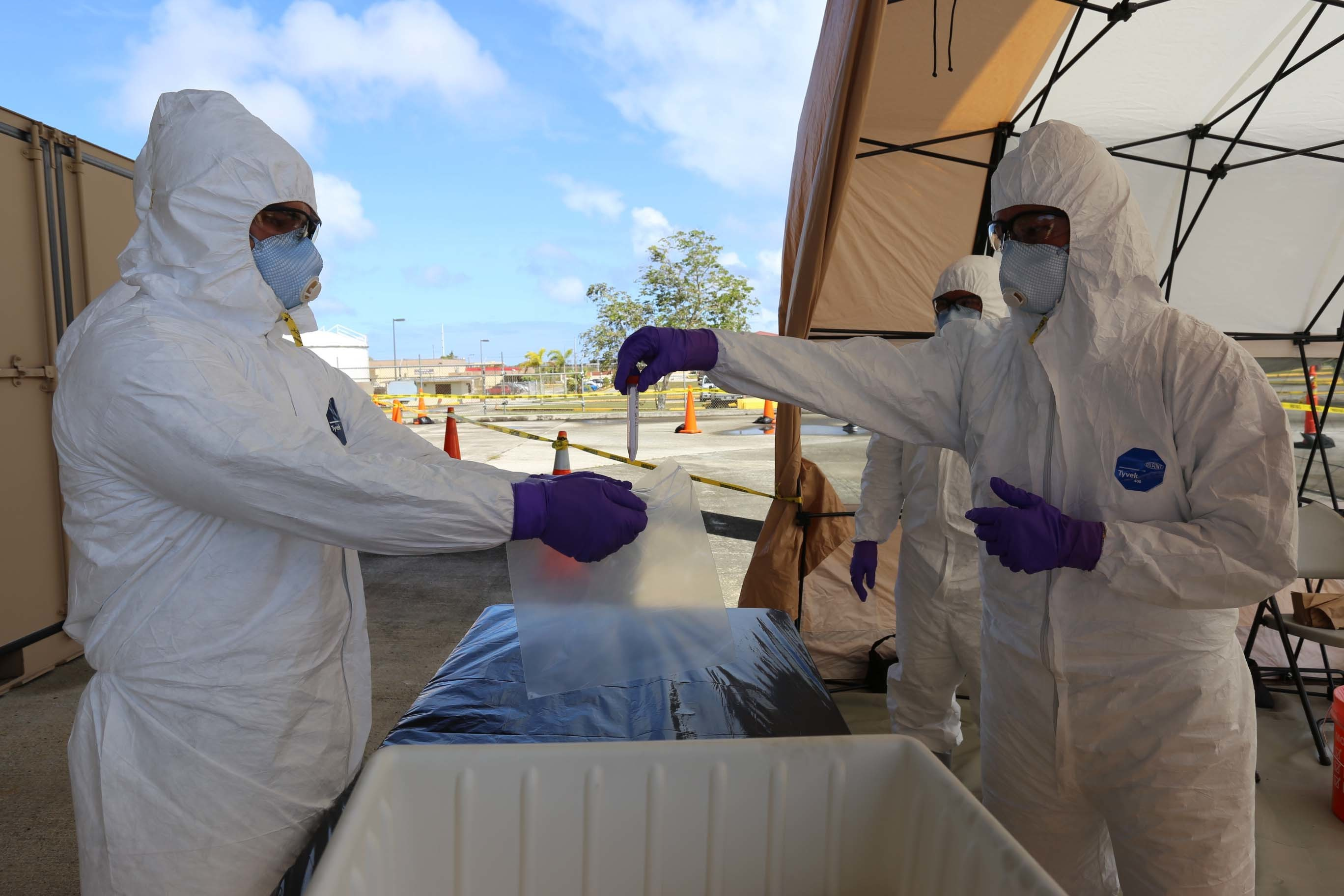 Capt. Ritalynn Dumlao, right, 94th Civil Support Team, Guam National Guard, drops a COVID-19 test into a bag for transport during the unit’s review COVID-19 testing procedures at the GUNG Barrigada Readiness Center on April 23, 2020. The GUNG continues to support the government of Guam in its effort to combat the COVID-19 pandemic. (U.S. Army National Guard photo by JoAnna Delfin)